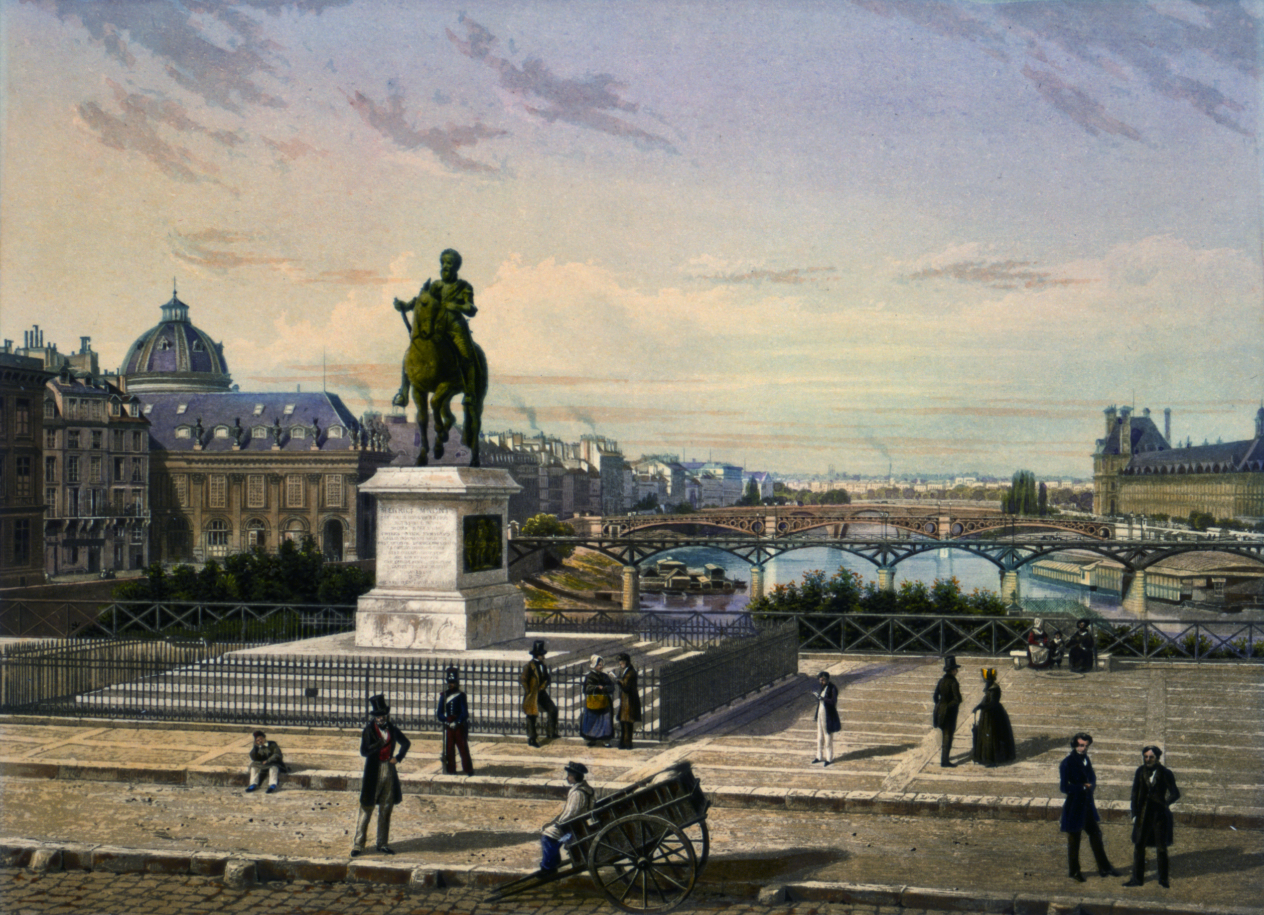 Print based on daguerreotype by French photographer Noël Paymal Lerebours (1807-1873). Vue prise du Pont Neuf à Paris. (View near the Pont Neuf, including equestrian statue of Henri IV, Paris, France.) Etching and aquatint, color, with hand-coloring. Illustration in: "Excursions Daguerriennes", Paris: Rittner et Goupil, 1842, plate 20.